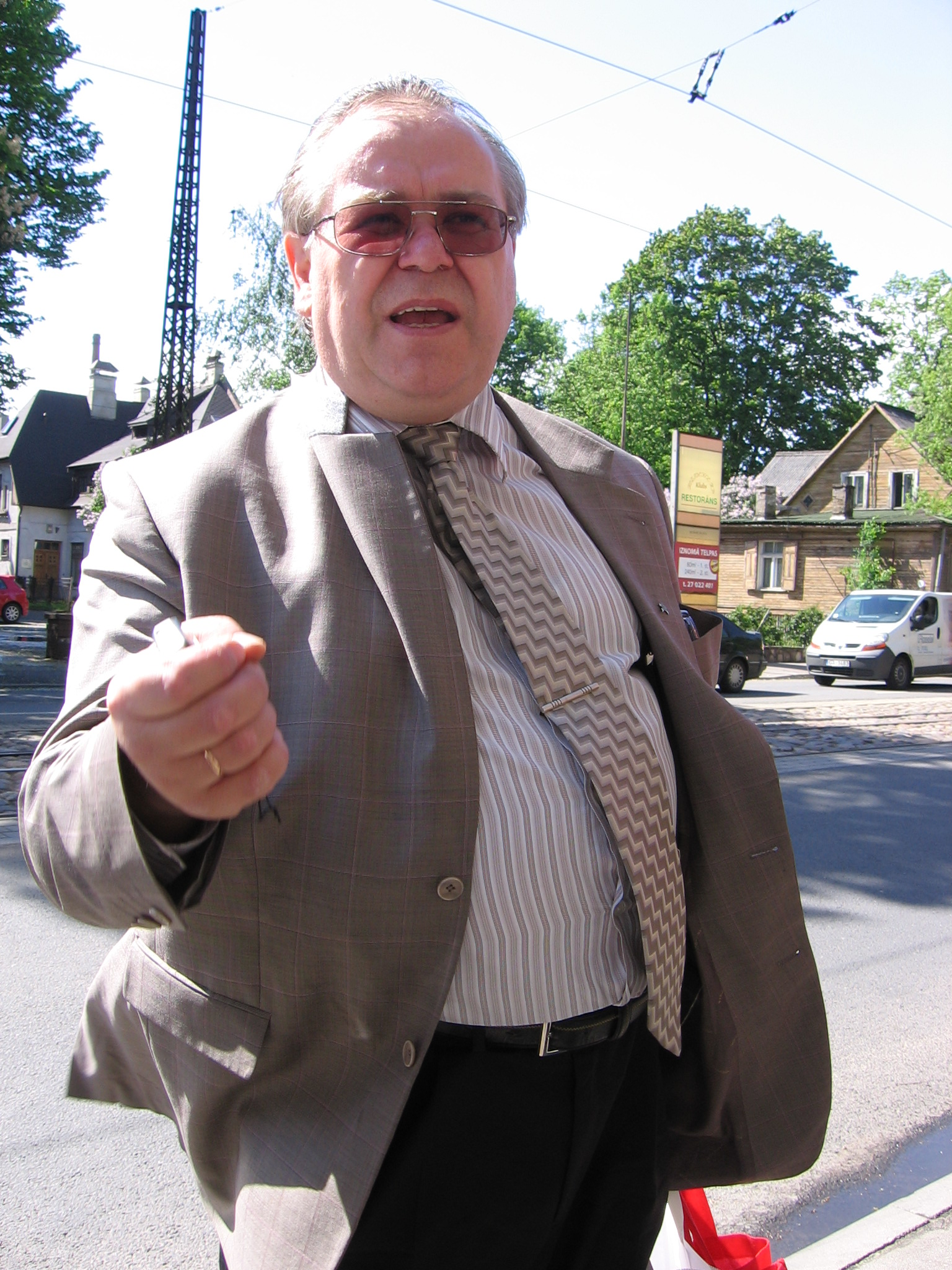 Aadu Must